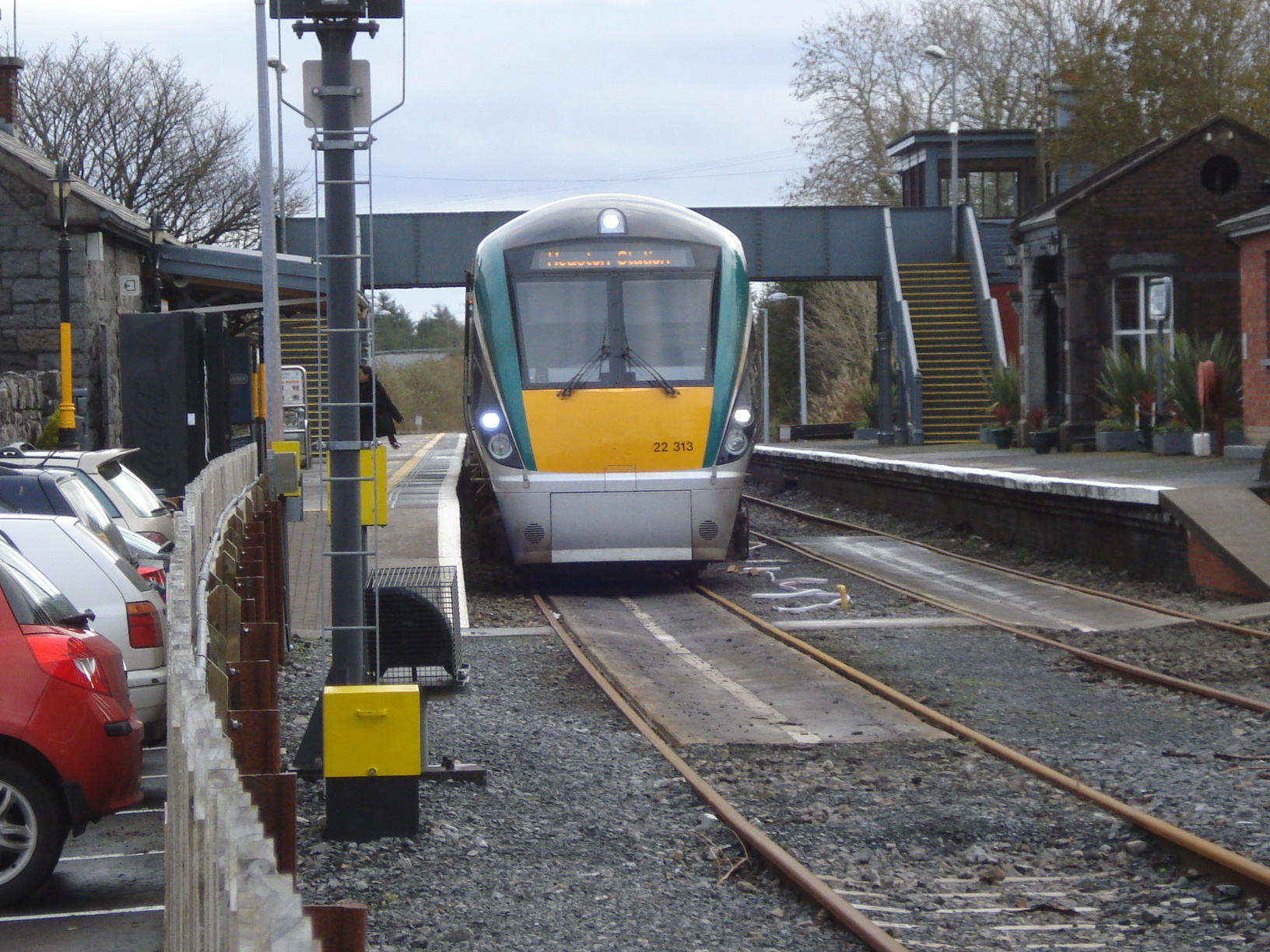 Westport Railway Station with train